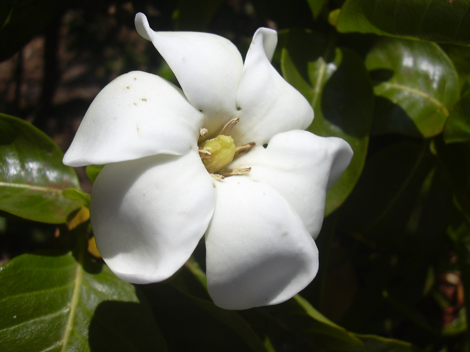 Gardenia brighamii (flower). Location: Maui, State nursery Kahului